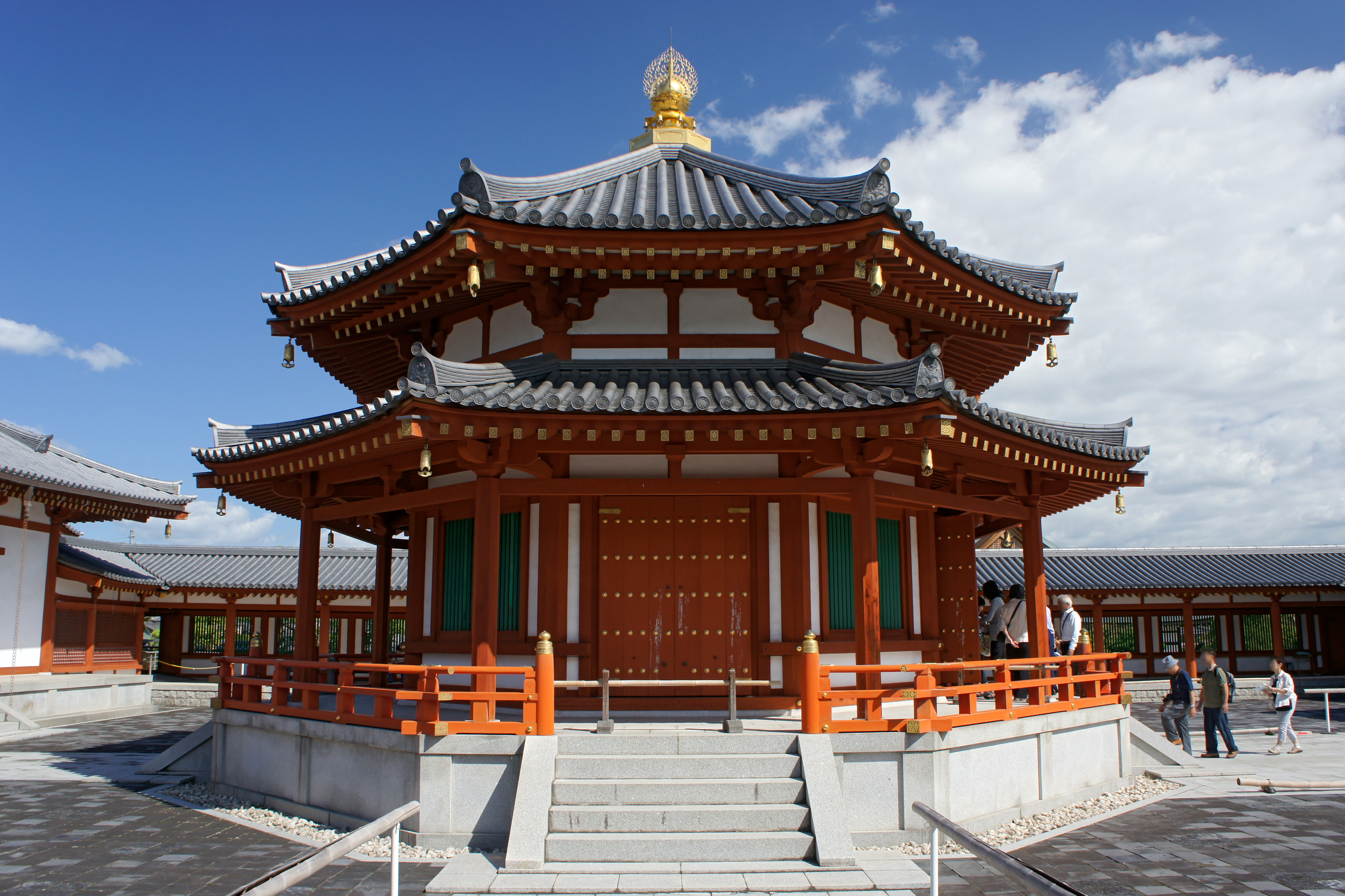 Yakushi-ji is a Buddhist temple in Nara, Nara prefecture, Japan. It was registered as part of the UNESCO World Heritage Site "Historic Monuments of Ancient Nara".